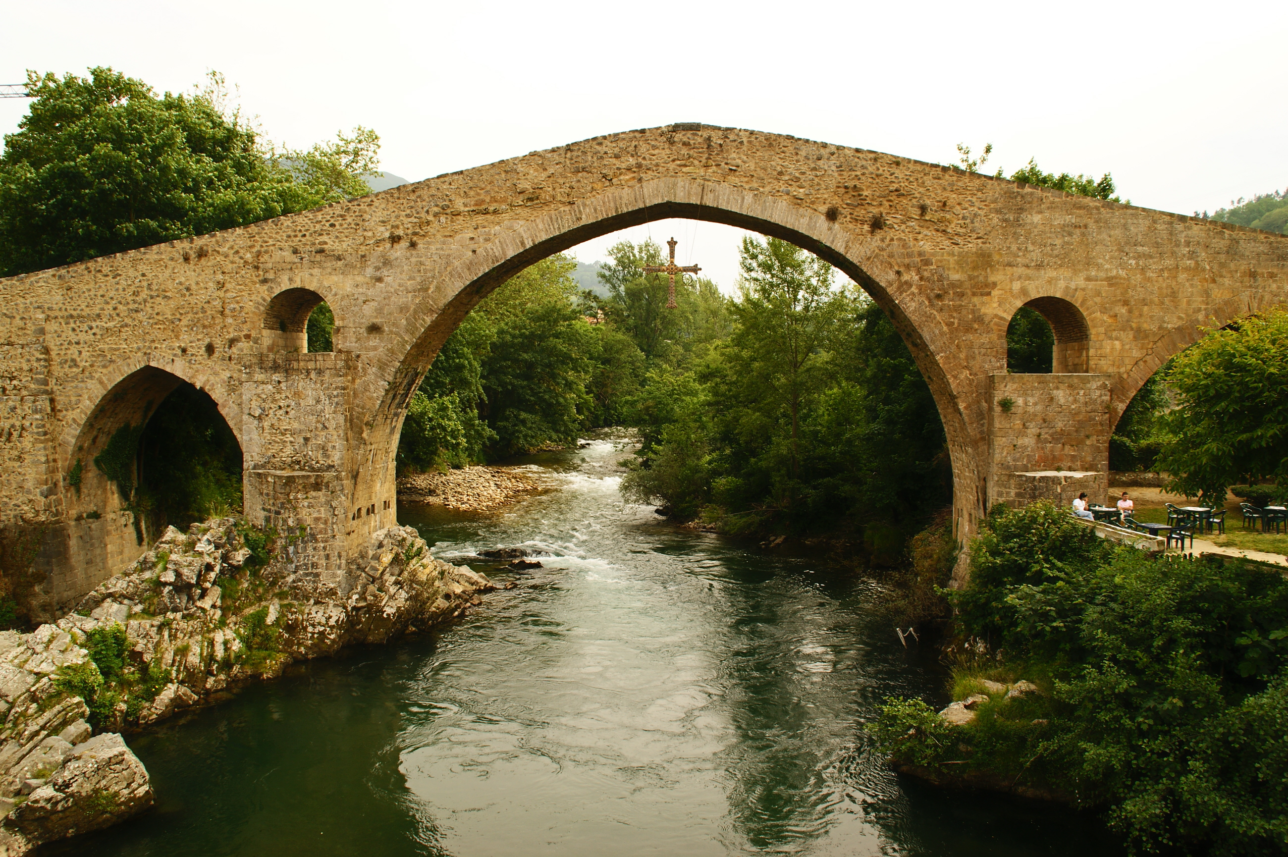 Old Roman bridge at Cangas de Onis with the Asturian cross hanging from it.